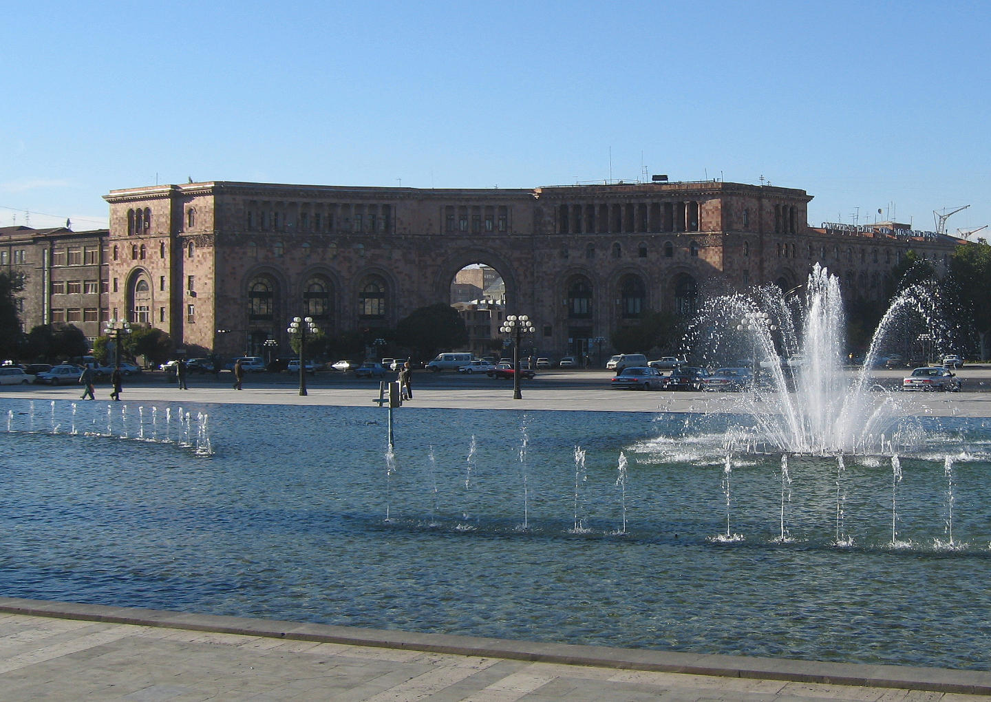 Main Post Office in Yerevan, Armenia